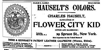 Advertisement for Charles Hauselt Leather Co., before 1898